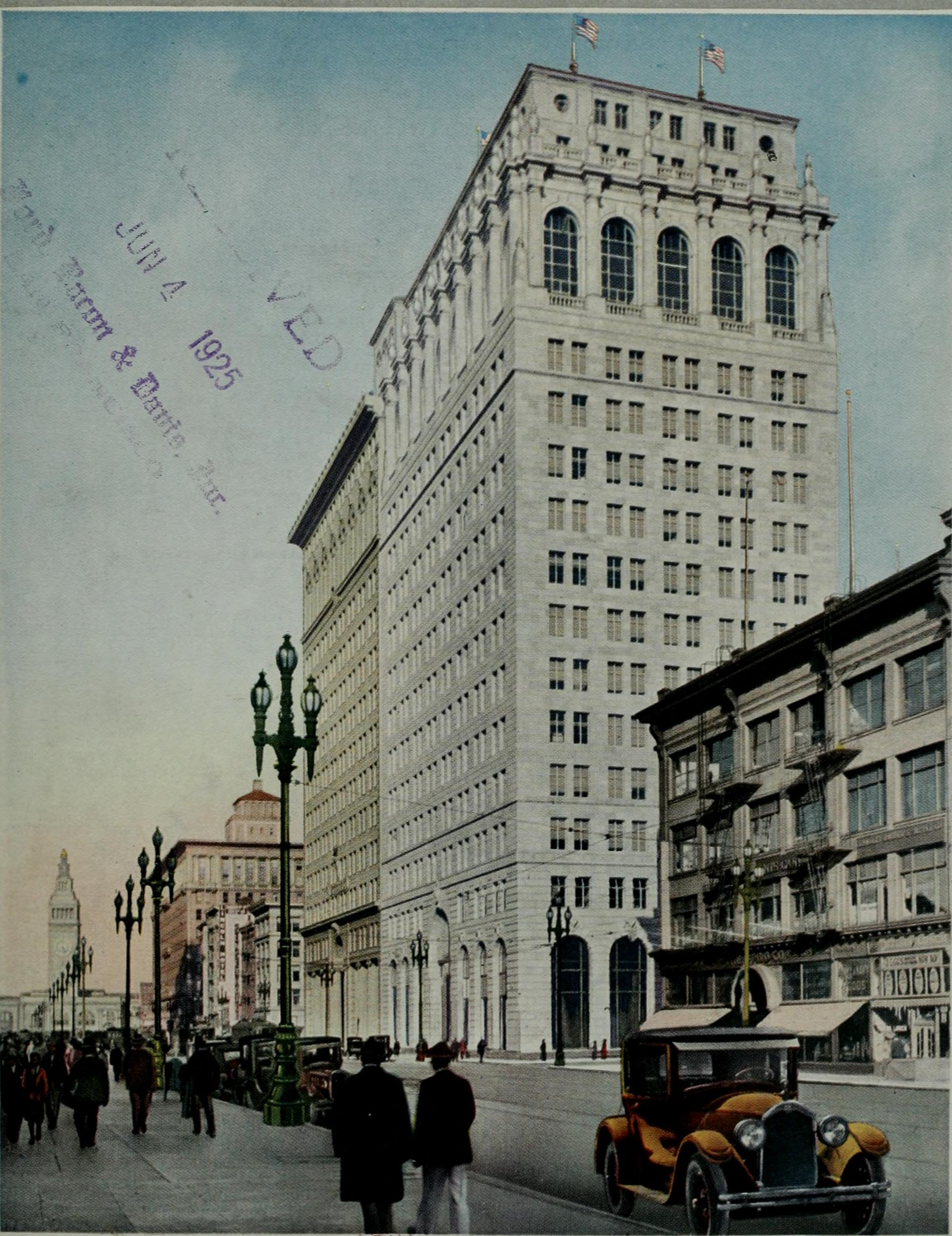 Title: Pacific service magazine Year: 1912 (1910s) Authors: Pacific Gas and Electric Company Subjects: Pacific Gas and Electric Company Electric utilities Electrical engineering Public utilities Publisher: San Francisco : Pacific Gas and Electric Company Text Appearing Before Image: PUBLISHED QUARTERLY BYTHE PACIFICGA Text Appearing After Image: Vol16 PACIFIC GAS AND ELECTRIC COMPANYS GENERAL OFFICE BUILDING. SAN FRANCISCO ;MnMaiMaMBnanaMHaBa«aBaMaM*taMMaHHHMHnHMBMKii^^ APRIL 1925 No4 PACIFIC GAS AND ELECTRIC COMPANY WALLACE M. ALEXANDERF. B. ANDERSONCHAS. L. BARRETTW. E. CREEDW. H. CROCKER DIRECTORS A. B. C. DOHRMANN JOHN S. DRUM P. T. ELSEY D. H. FOOTE A. F. HOCKENBEAMER FRANK A. LEACH, Jr.KIORMAN B. LIVERMOREJOHN D. McKEEJOHN A. McCANDLESSC. O. G MILLER OFFICERS W. E. CREED President) FRANK A. LEACH, JR First Vice-President and General Managerl A. F. HOCKENBEAMER Second Vice-President and Treasurer) D. H. FOOTE Third Vice-President and Secretary) CHAS. L. BARRETT Assistant Secretary) MANAGEMENT OFF ICERS p. M. DOWNING, Vice-President in Charge of Electrical Construction and Operation A. H. MARKWART, Vice-President in Charge of Engineering W. G. VINCENT, Jr., Vice-President and Executive Engineer W. S. YARD, Vice-President in Charge of Gas Construction and Operation R. E. FISHER, Vice-President in Charge of Public Relation